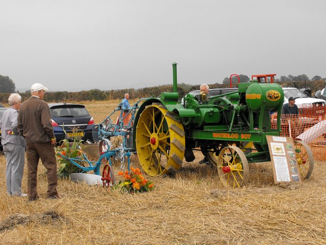 Waterloo Boy tractor produced by John Deere, 1919-1920. John Deere took over the Waterloo Boy Company in 1918. Model N, overhead valve, two cylinder 750rpm engine. 25hp drawbar. Two forward gears and one reverse. The tractor has a small petrol tank, used for starting the engine and a larger tank (at the front) for paraffin to run it.